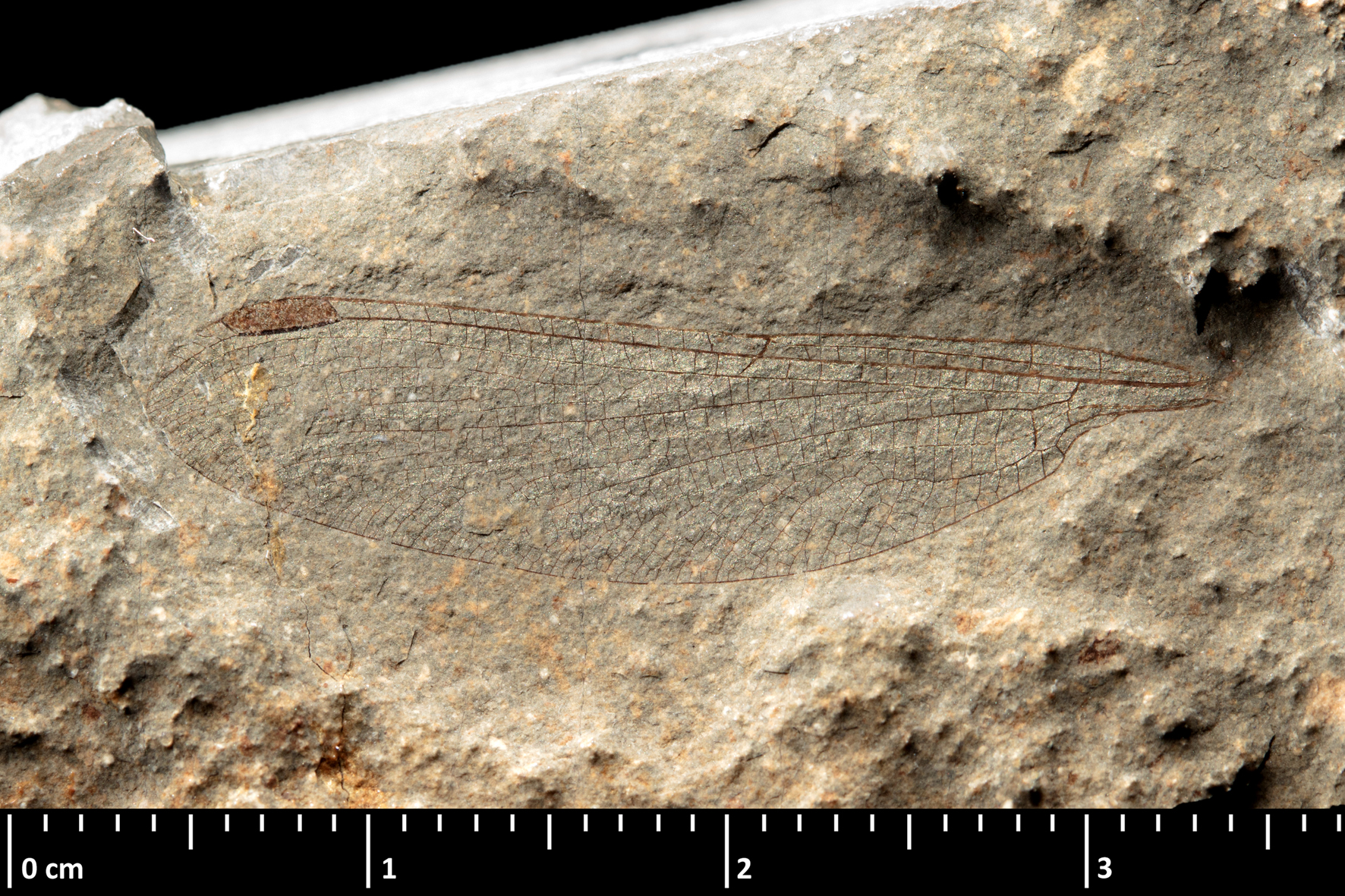 The Mesoepiophlebia veronicae holotype part side with direct lighting and with ethanol wetting to show detail. Toarcian, Jurassic; Bascharage, Luxembourg Muséum national d'Histoire naturelle specimen MNHN.F.R10393